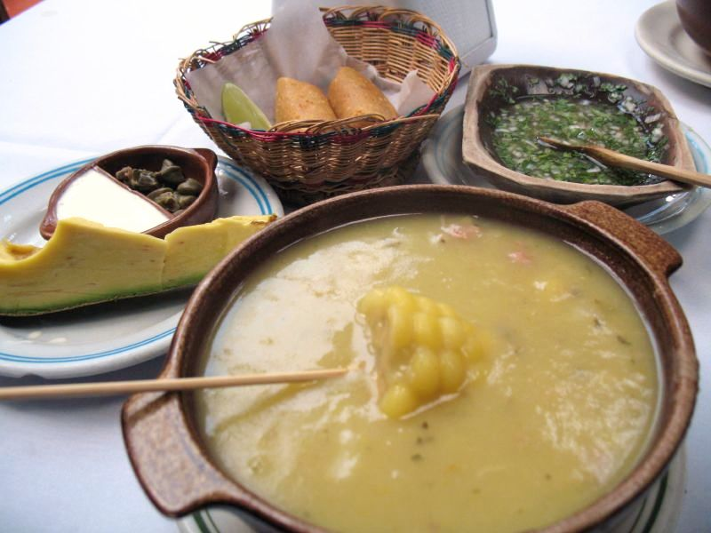 Ajiaco